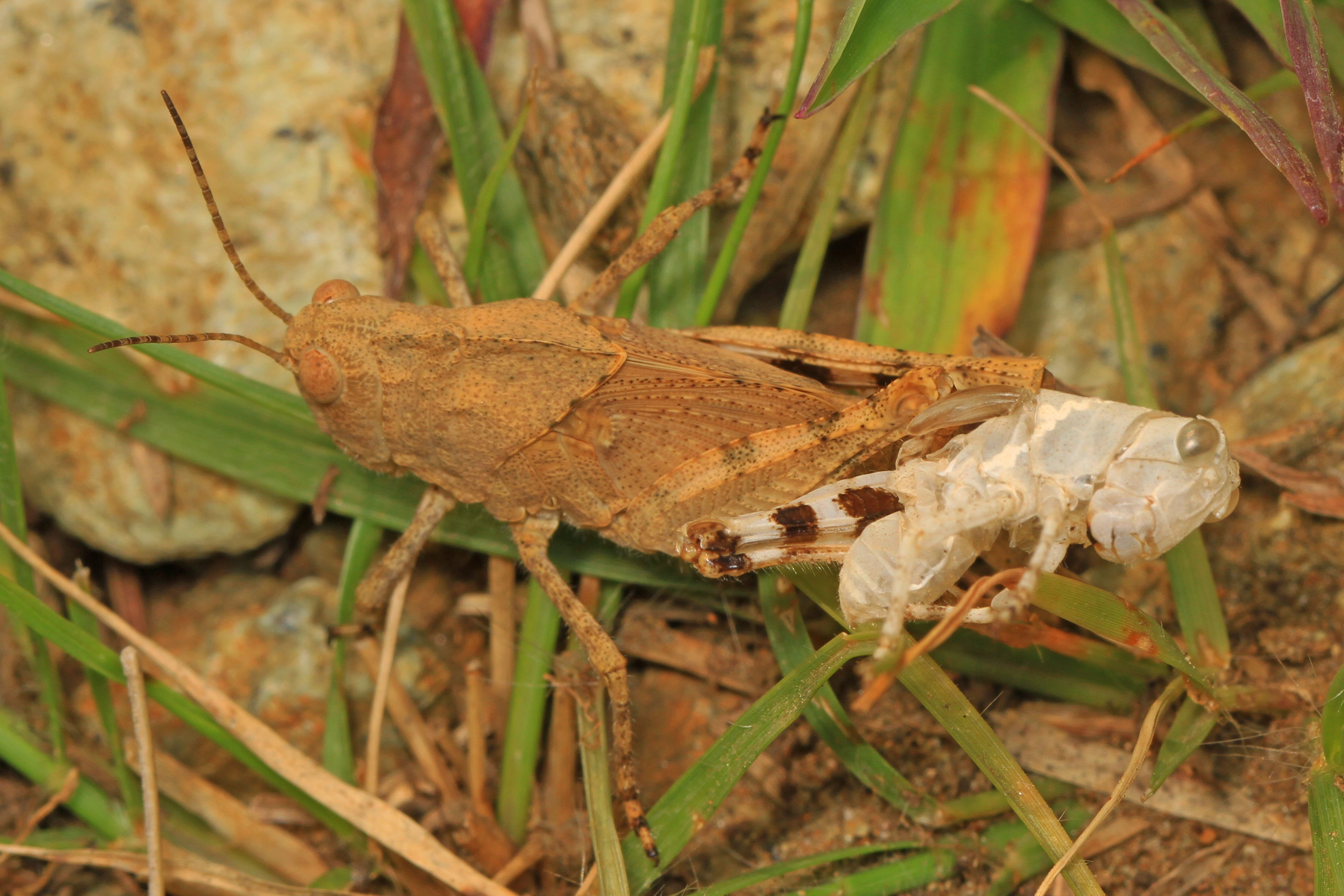 Sulphur-winged Grasshopper - Arphia sulphurea, Soldier's Delight, Owings Mills, Maryland. This poor grasshopper was carrying around its shed skin attached to its rear leg. We helped it out of its "old clothes", but the leg was deformed as a result of the injury.